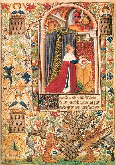 france.: Le Livre d'Heures de Pierre II, duc de Bretagne eng.. the book of hours by Peter II., Duke of Brittany